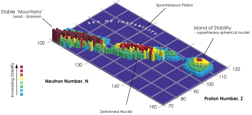 A 3-dimensional representation of the theoretical Island of stability in nuclear physics. This image was created, based on freely available data and images found on the web, intended to be concise and easily understood. See Talk:Island of stability #The diagram in the beginning of the article has wrong numbers in the Z(proton number) axis for discussion of the image’s factual accuracy, as well as of the SVG version.